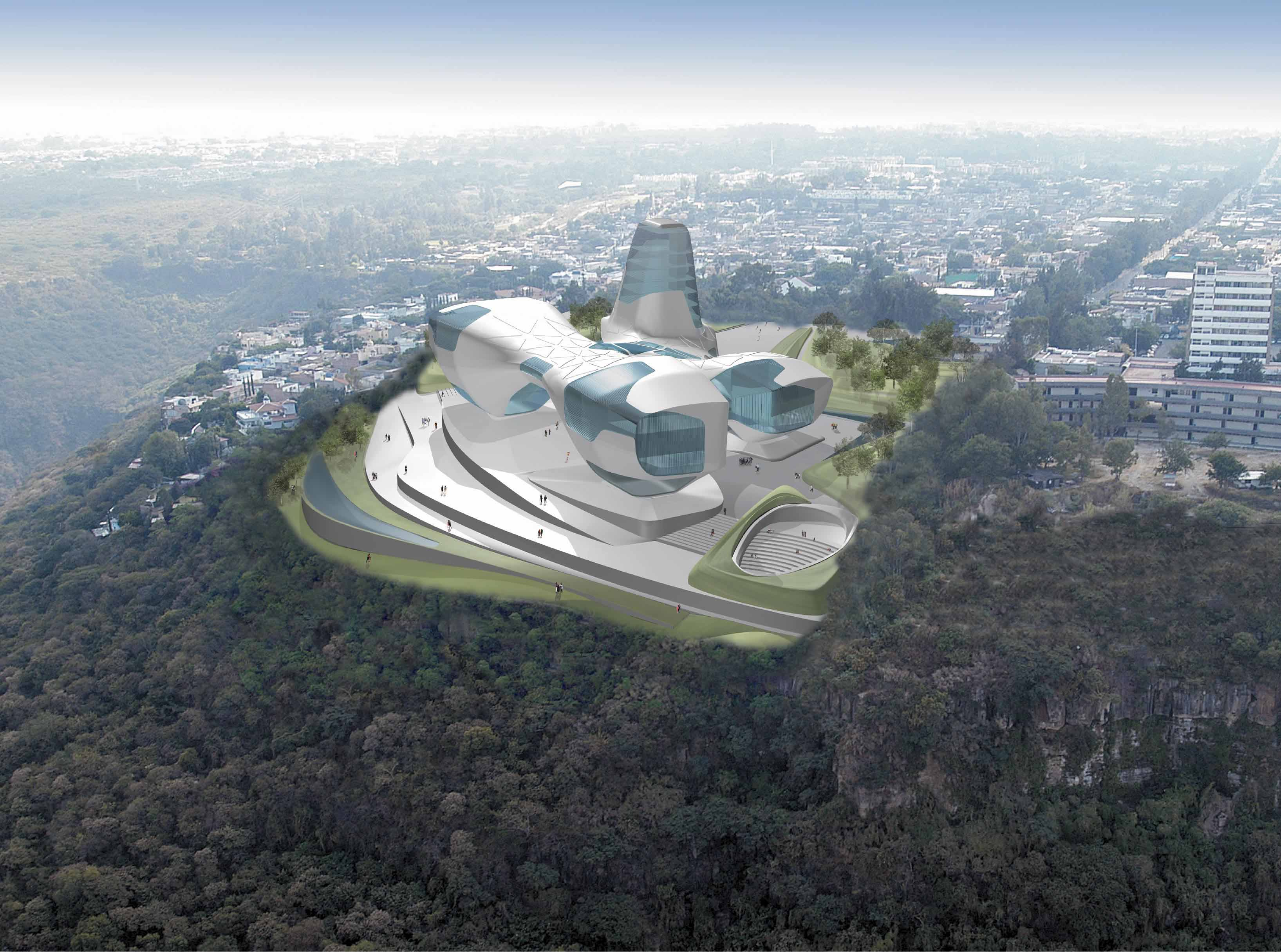 Asymptote Architecture artist's conception of the Guggenheim Museum, Guadalajara, Guadalajara, Mexico (construction cancelled).